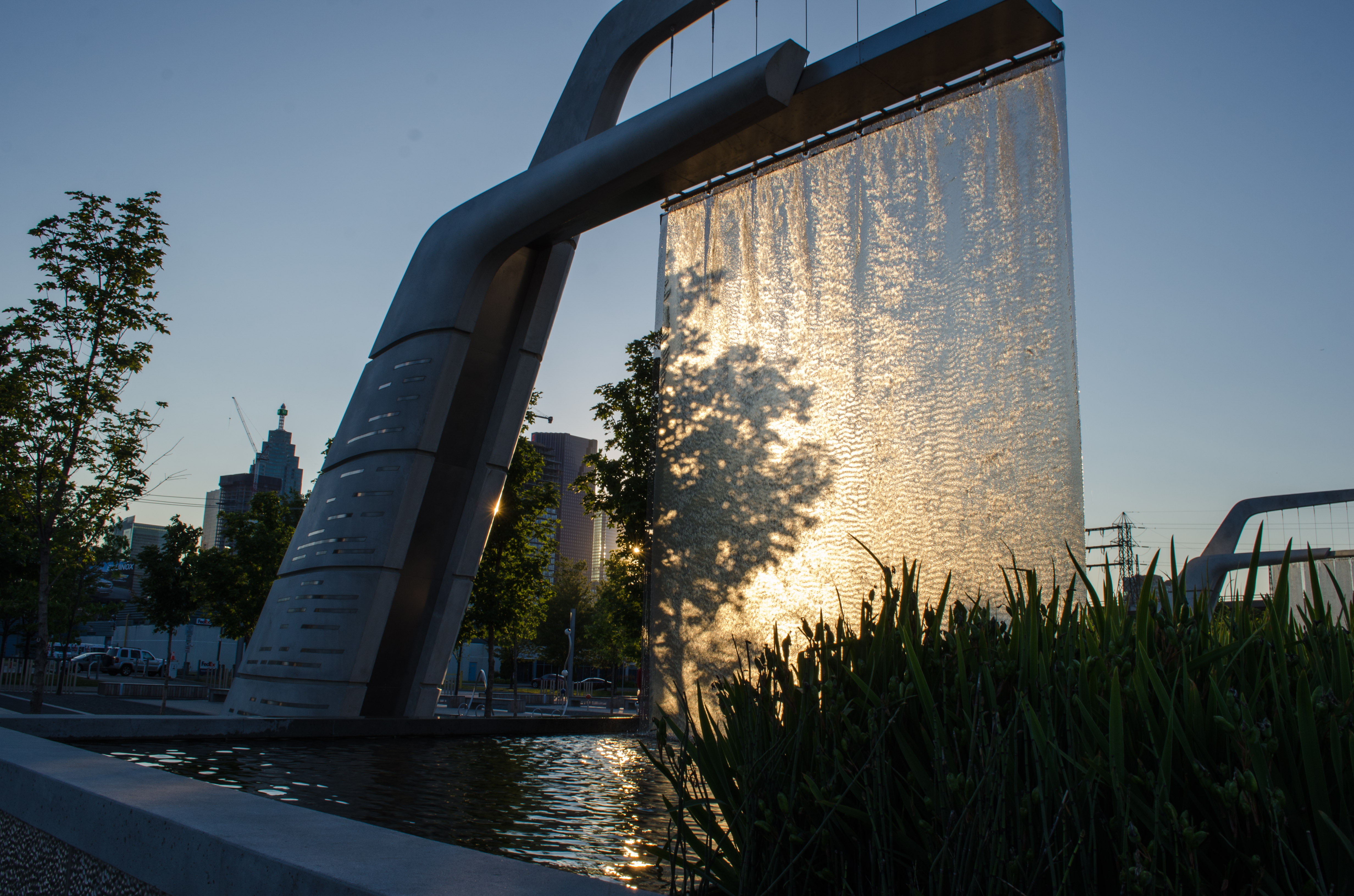 A water feature (that doubles as a stormwater management facility) in Sherbourne Common park in East Bayfront, Toronto, Ontario, Canada.